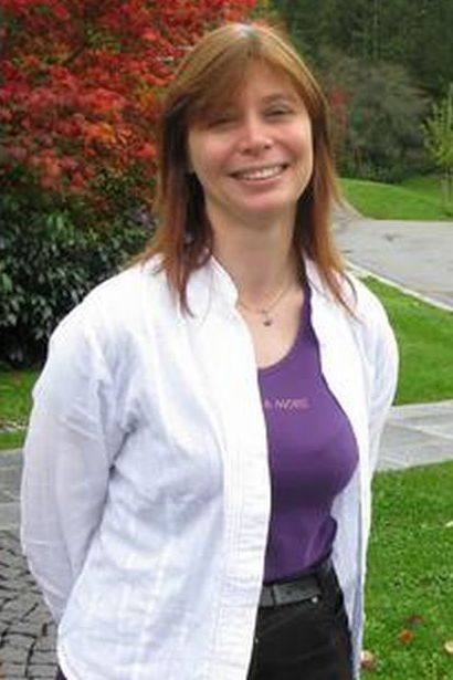 Katrin Wendland, Oberwolfach 2010